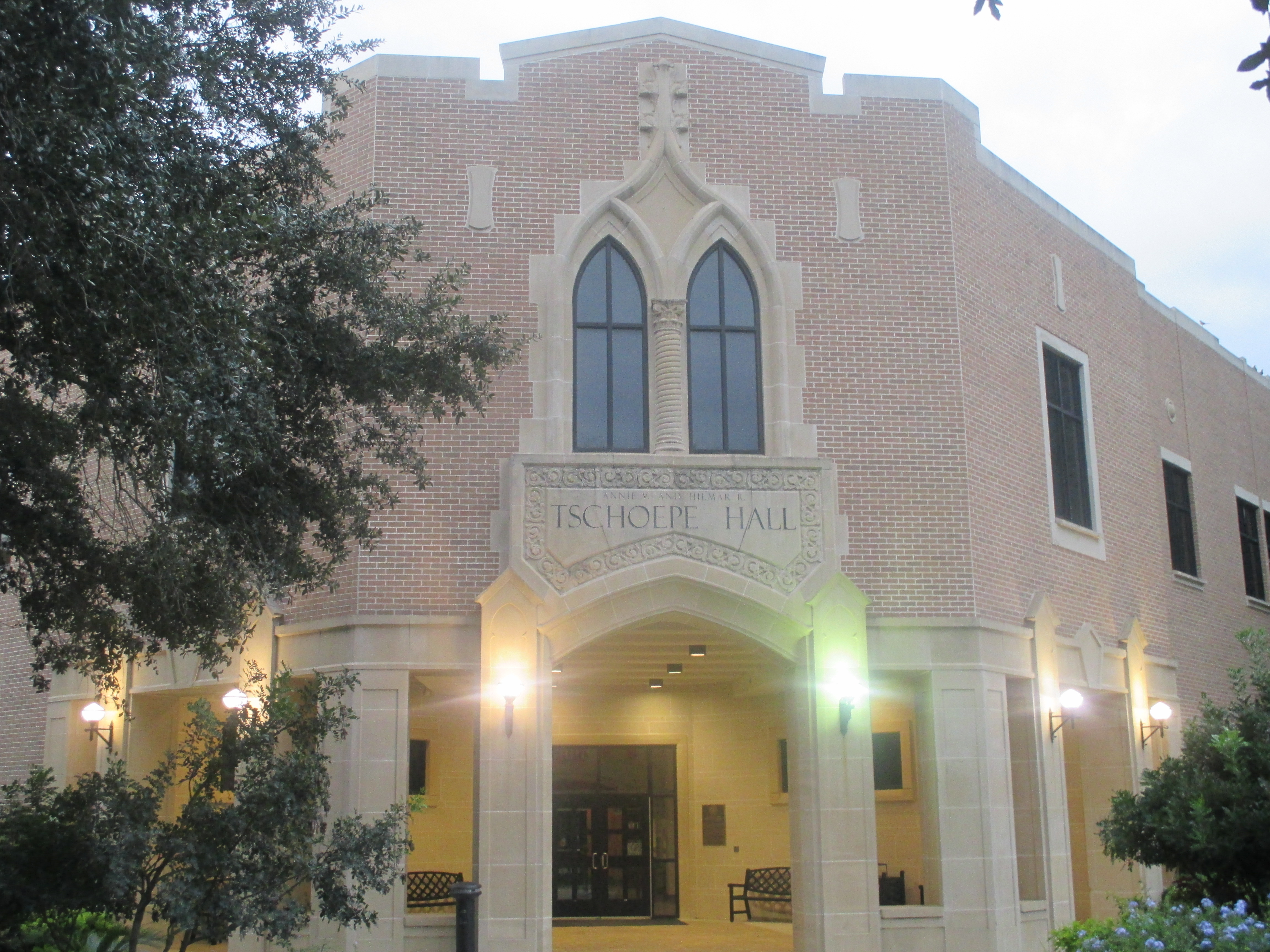 I took photo of Tschoepe Hall at Texas Lutheran University in Seguin, with Canon camera.